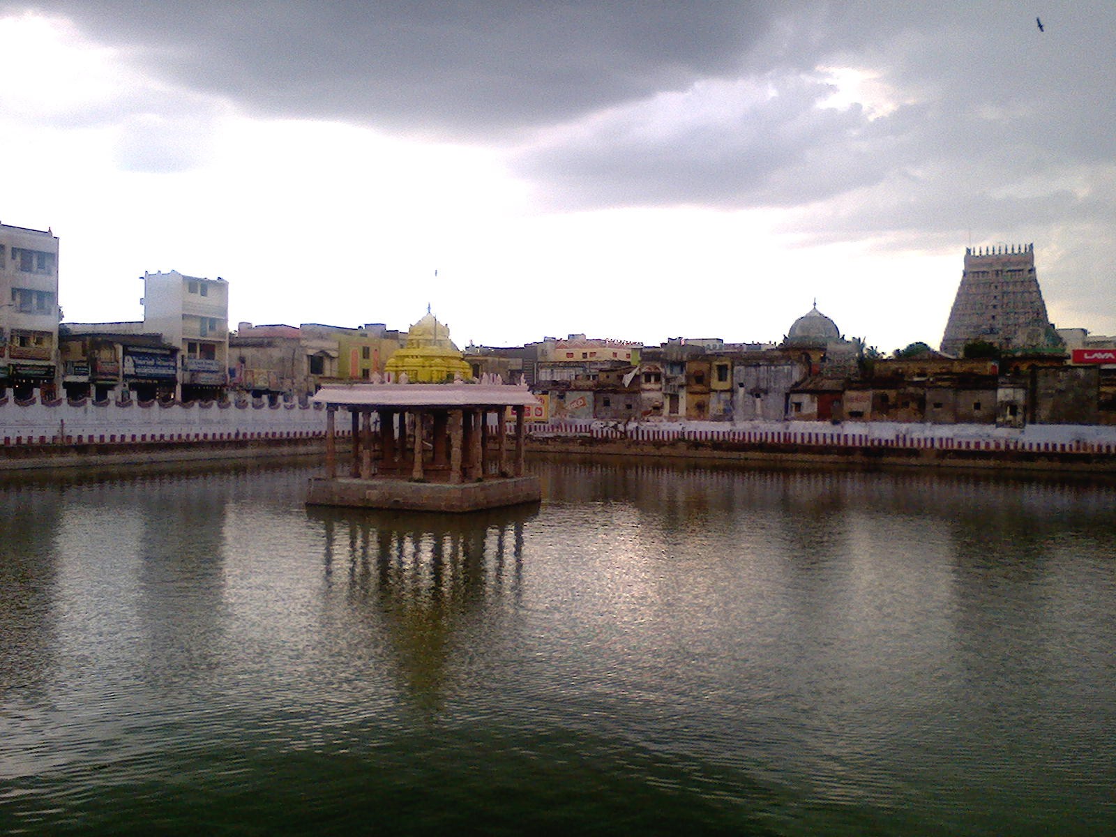 Kumbakonam Potramarai Tankகும்பகோணம் பொற்றாமரைக்குளம்